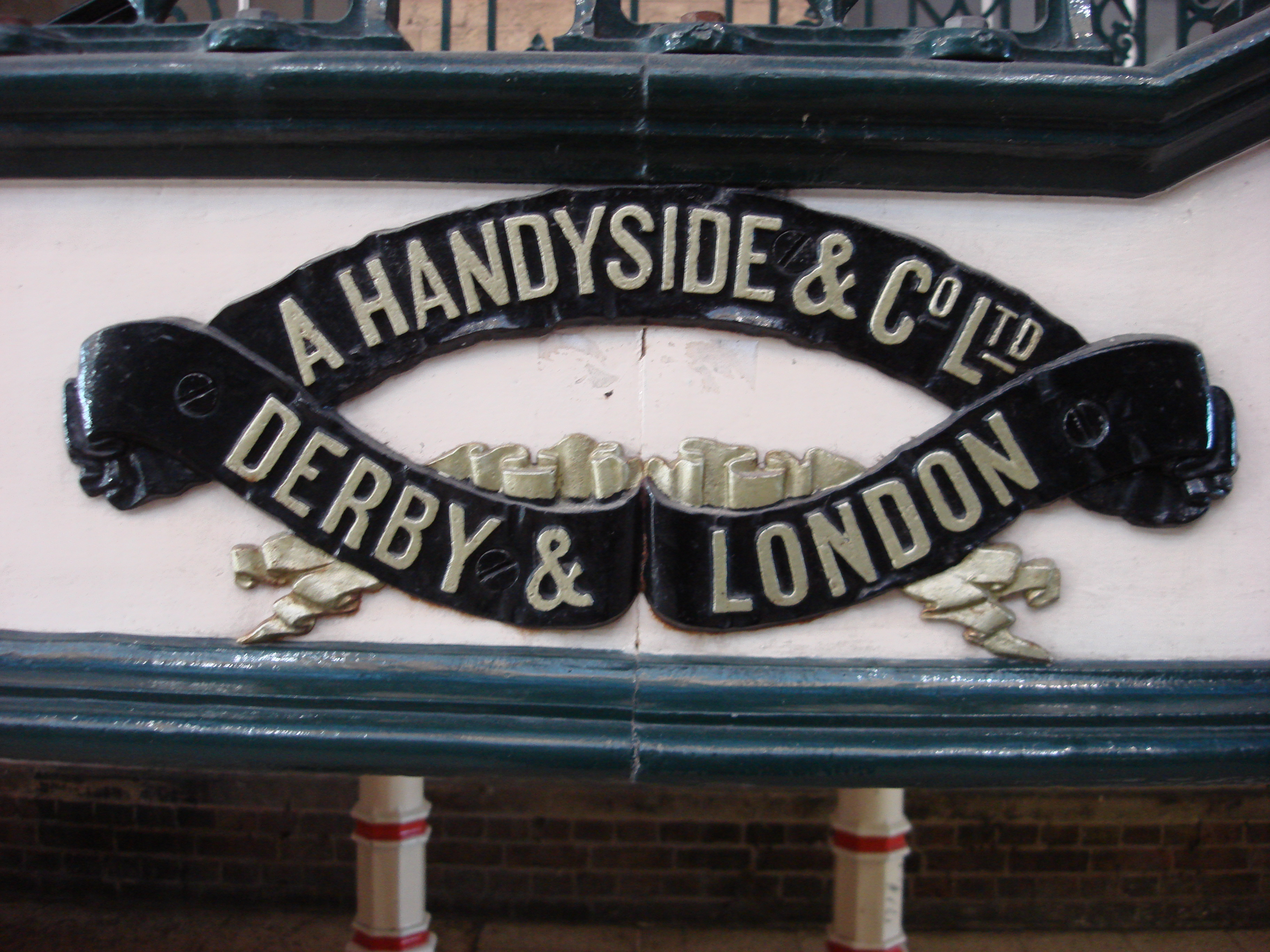 Iron Footbridge builder's plate at King's Cross railway station, London, UK